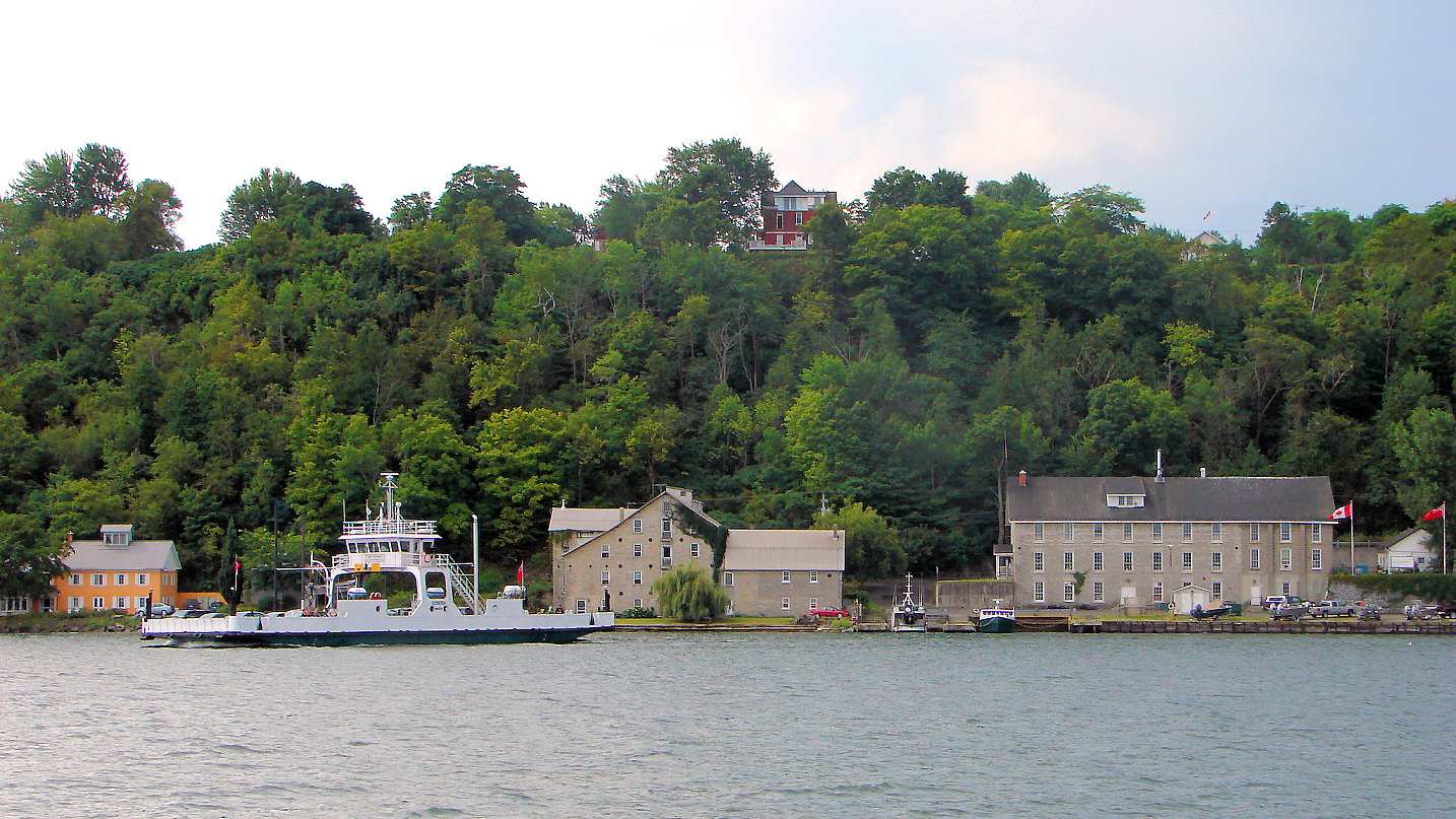 Glenora (Prince Edward County), Ontario, Canada